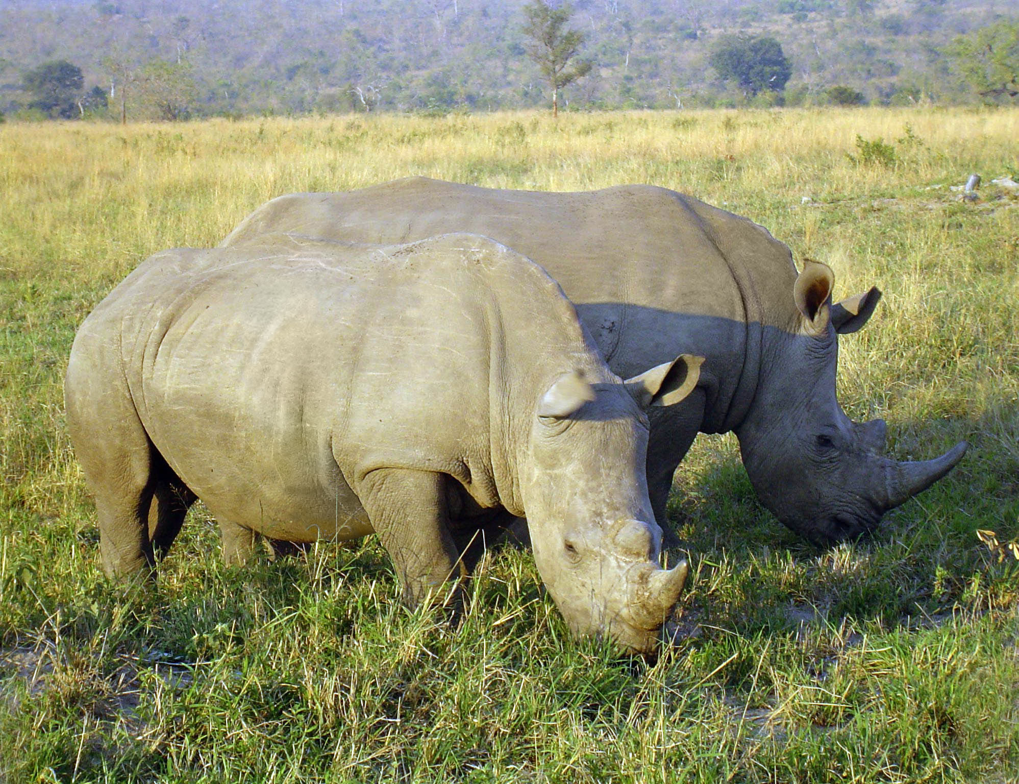 A photo taken of Rhinoceros eating in a national park in South Africa.